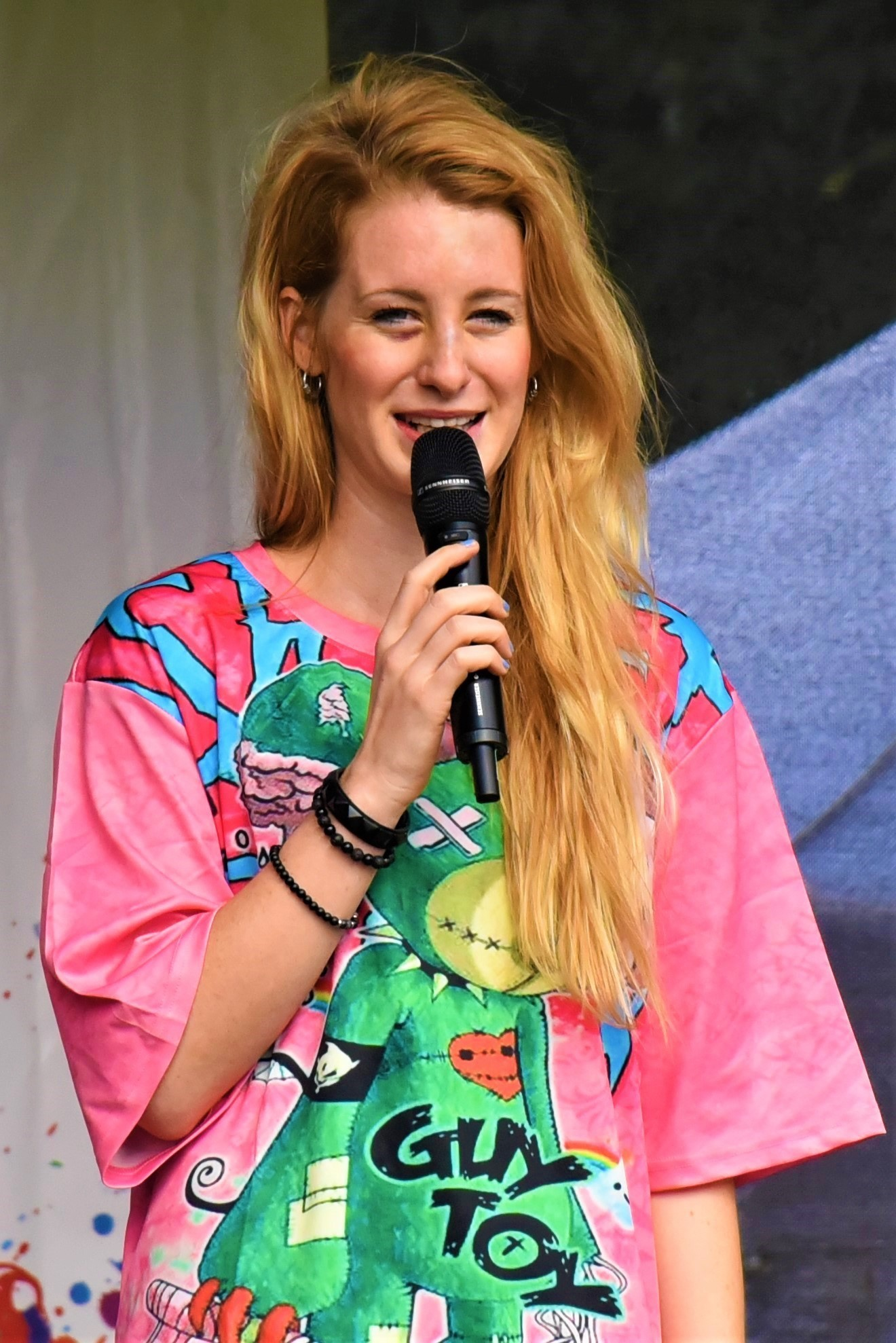 Sabina Křováková, Czech vocalist